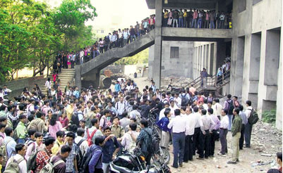 Pic showing 2010 strike by non-teaching staff of PCoE.